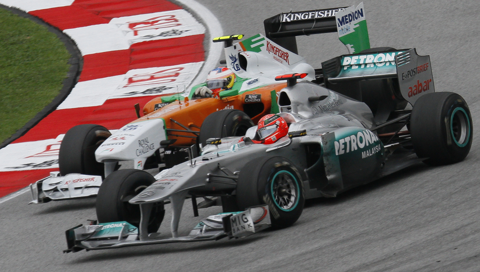 Formula One 2011 Rd.2 Malaysian GP: Michael Schumacher (Mercedes) overtaking Paul di Resta (Force India) on last stage of the race.